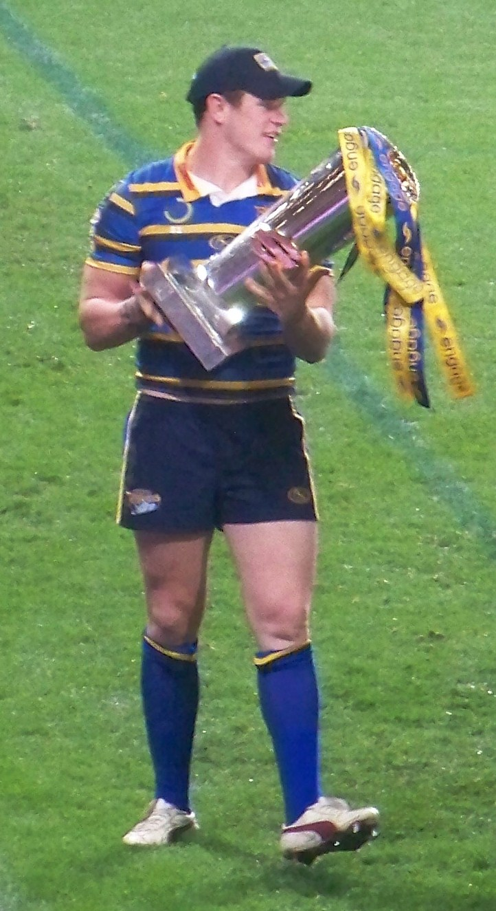 Luke Burgess with the Super League cup after Leeds succesfully won the 2009 Super League Grand Final for the third consecutive year (being the first team to do so). Taken at Old Trafford, Manchester on the night of Saturday the 10th of October 2009.